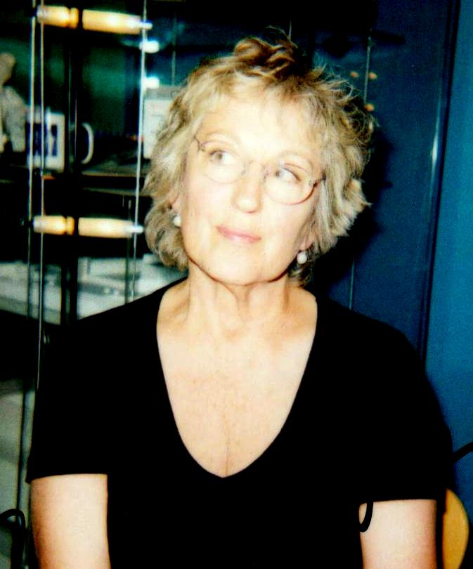 Germaine Greer at the 2006 Humber Mouth Literature Festival, Hull, England